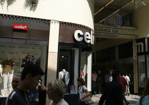 The "Passage Lemonnier" is a small mall in the city center. Here the entrance from Vinâve d'Ile "street".